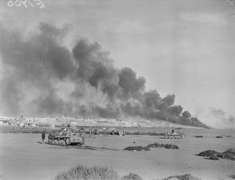 The Western Desert Campaign, 1941 Port installations burn over the harbour town of Tobruk, Libya, on 24 January 1941 following its capture by British and Australian troops two days earlier. M11/40 (on the left) and M11/39 (on the right) Italian tanks can be seen in the foreground. White kangaroo symbols can be seen on the tanks, now the possessions of the 6th Australian Division.